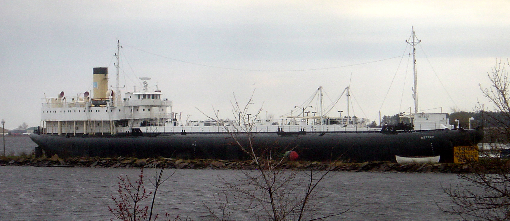 The SS Meteor, the last existing whaleback ship; located off Superior